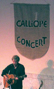 Picture of Tom Rush performing at a Calliope: Pittsburgh Folk Music Society Concert at Carnegie Lecture Hall in Pittsburgh, Pennsylvania, on April 22, 2006.